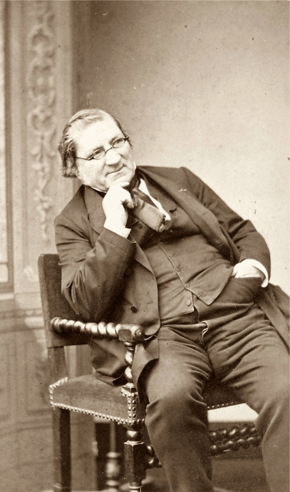 Claude Gay, Botanist from France